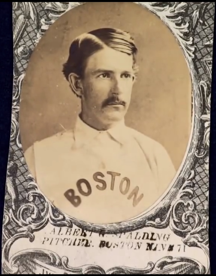 Albert Spalding on a 1871 Boston Red Stockings baseball card. As this card was originally published in 1871 it is clearly in the public domain.